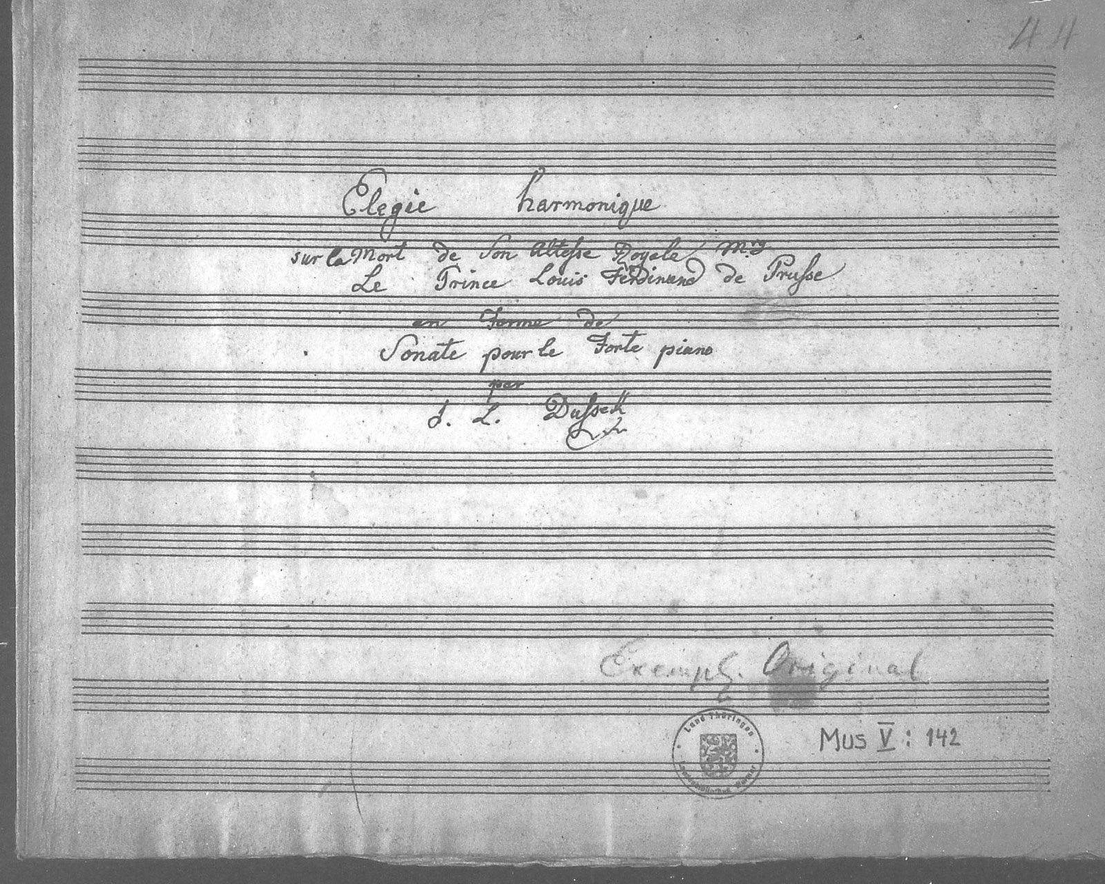 Handschrift der Klaviersonate von Jan Ladislav Dusik